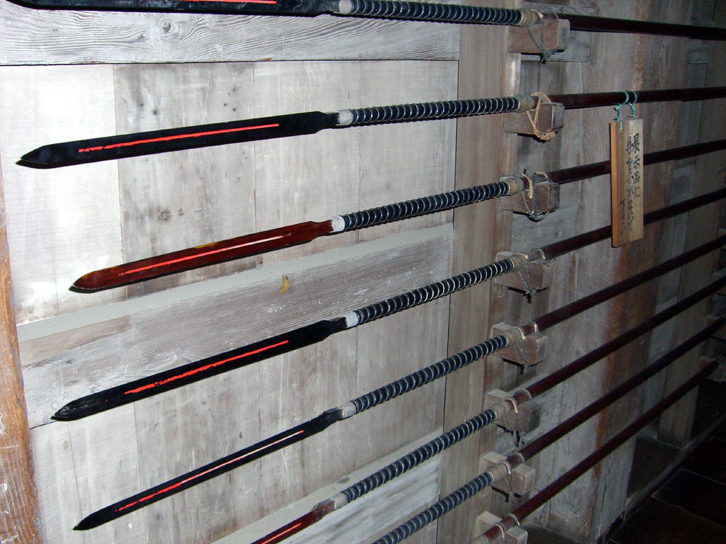 Su yari, Himeji Castle Japan.